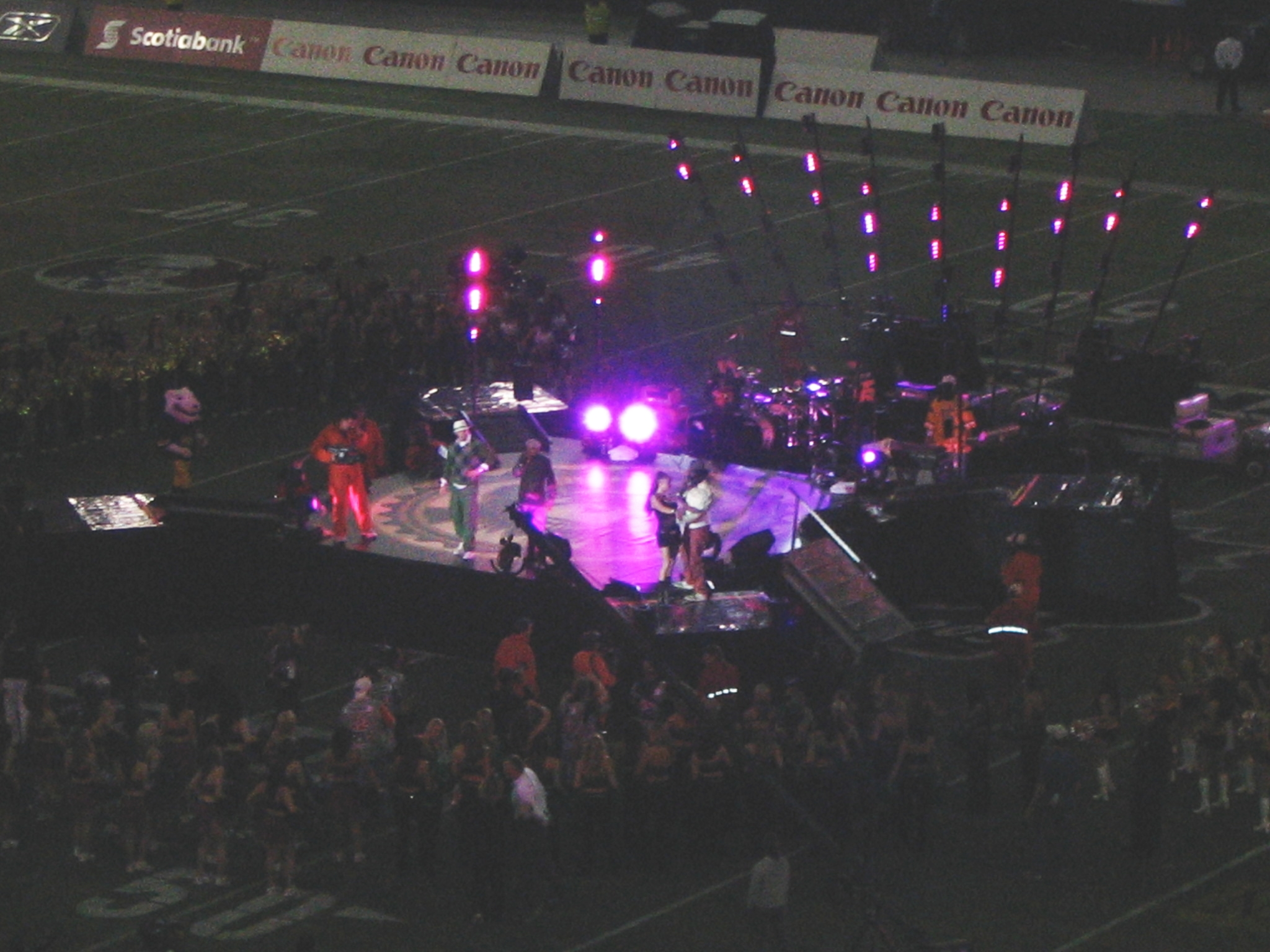 The Black Eyed Peas perform during halftime at the 93rd Grey Cup, November 27, 2005, BC Place Stadium in Vancouver, British Columbia, Canada.Grey Cup